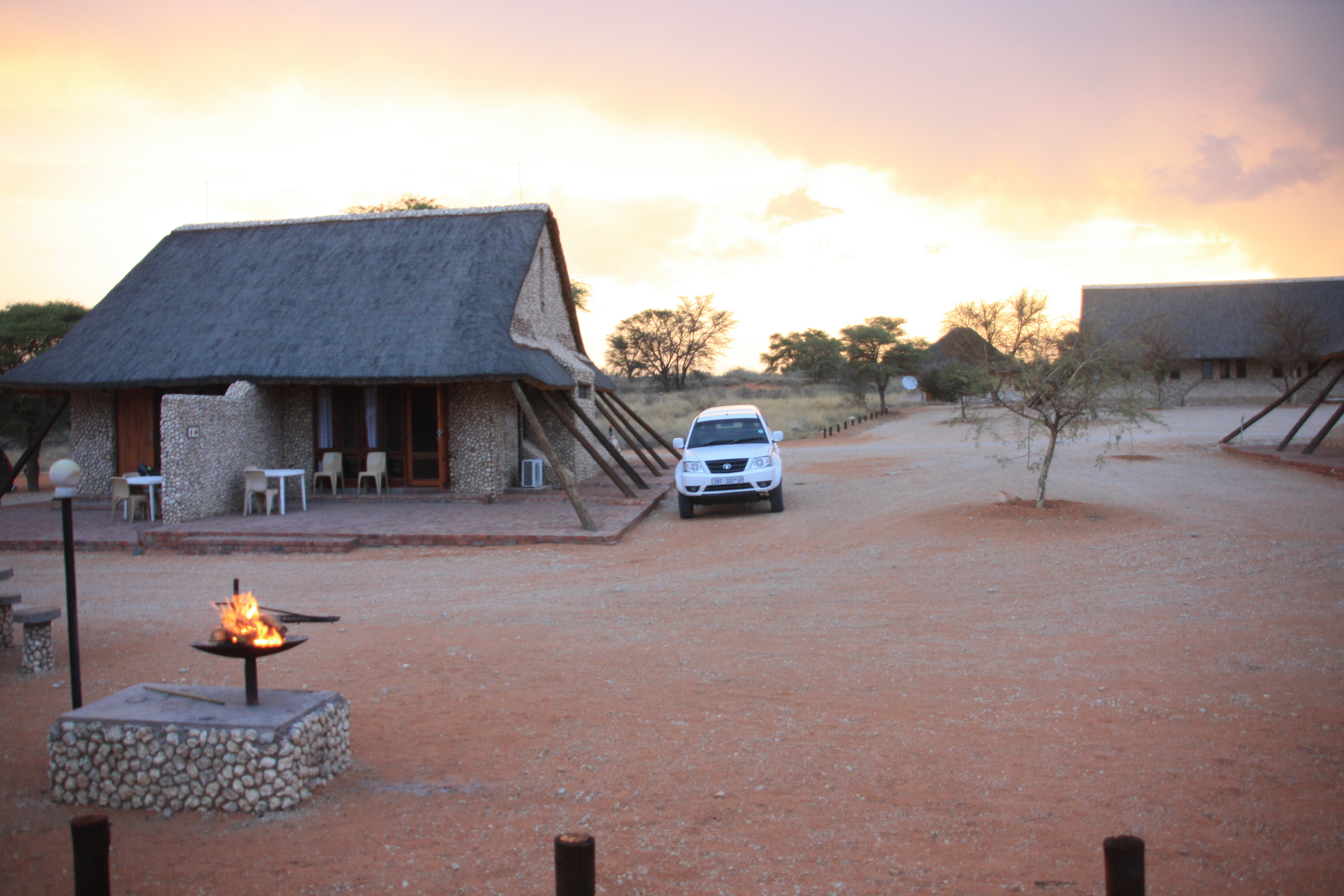 Twee Rivieren camp